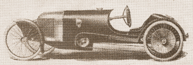 1914 Falcon Cyclecar